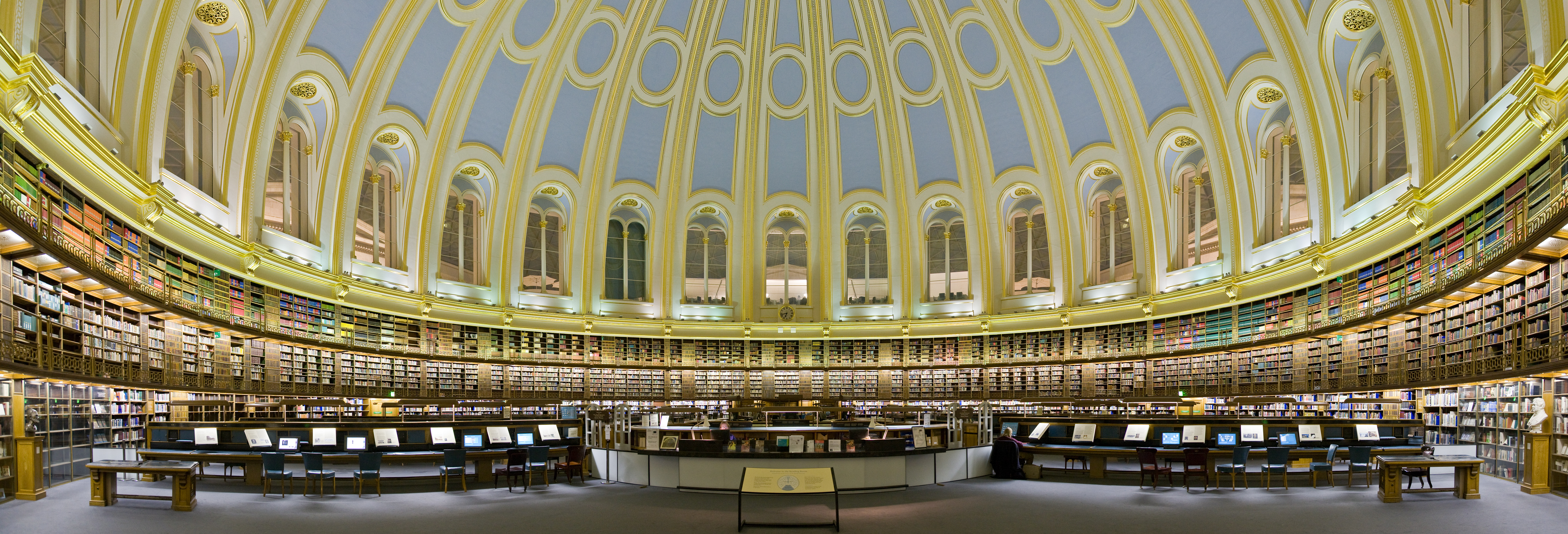 The British Museum Reading Room. A panorama of 2x5 segments. Taken with a Canon 5D and 24-105mm f/4L IS lens.